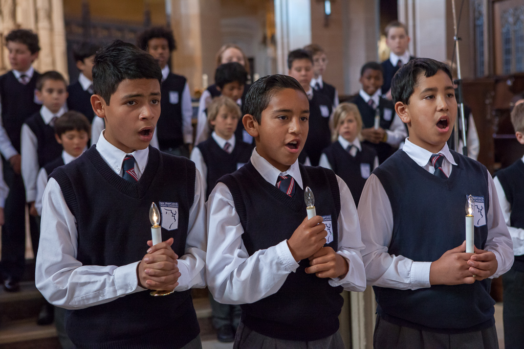 Members of the San Francisco Boys Chorus rehearse for a concert at St Dominic's Catholic Church, San Francisco.